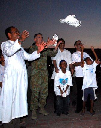 Commander of the International Stabilisation Force, Brigadier Mark Holmes, releases a dove as part of United Nations World Peace Day in Dili, East Timor.. . Middle Caption:. Working with the East Timor Government recently gave Australia’s Commander of the International Stabilisation Force (CISF), Brigadier Mark Holmes, another first.. . Together with the Prime Minister of East Timor, Xanana Gusmao, and an array of distinguished guests from various countries, CISF became an integral part of the celebrations when he was called upon to release a white dove as a symbolic gesture of peace.. . International Peace Day has been celebrated since September 1982 under the auspices of the United Nations General Assembly. Its enduring focus is on commemorating and strengthening the ideals of peace within and among all nations and peoples. . . In Dili, at least 2000 people, many Timorese, were in attendance for the International Peace Day celebration. The event was held outside East Timor’s Parliament building, the Palacio Do Governo, which provided an ideal backdrop for the celebrations. Among the highlights of the evening’s entertainment was a small ensemble of young Timorese children who had choreographed their own dance.